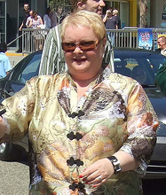 Cropped version of: At Happy Feet premiere - Fox Studio's Sydney